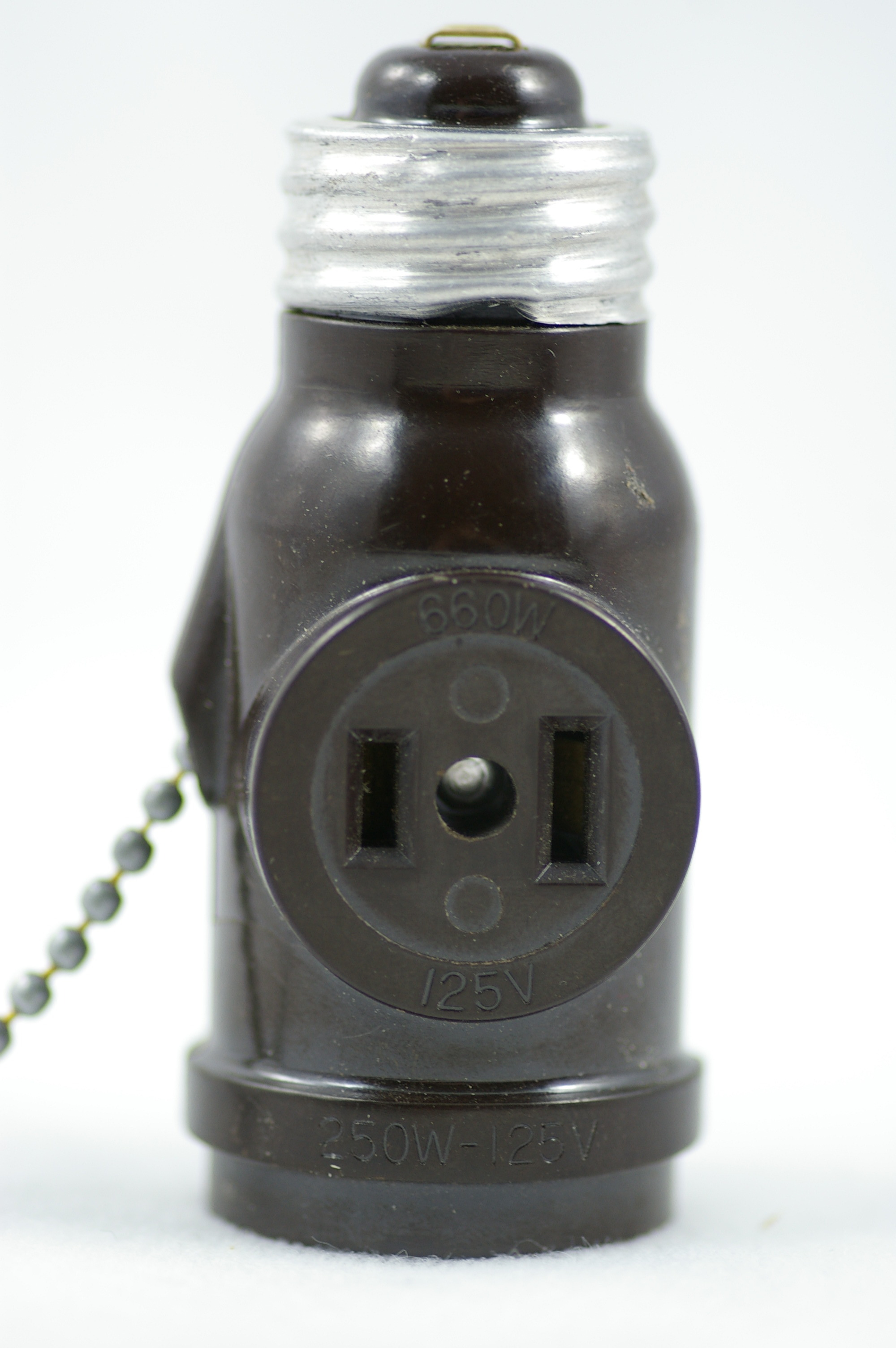 A US adapter to go from a light socket to 2 polarized plugs, with a female socket on the end for a light bulb.